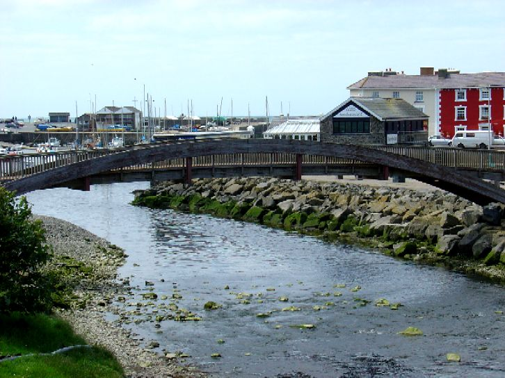 Footbridge over the Aeron at Aberaeron. Taken by Aeronian on 26 May, 2007.